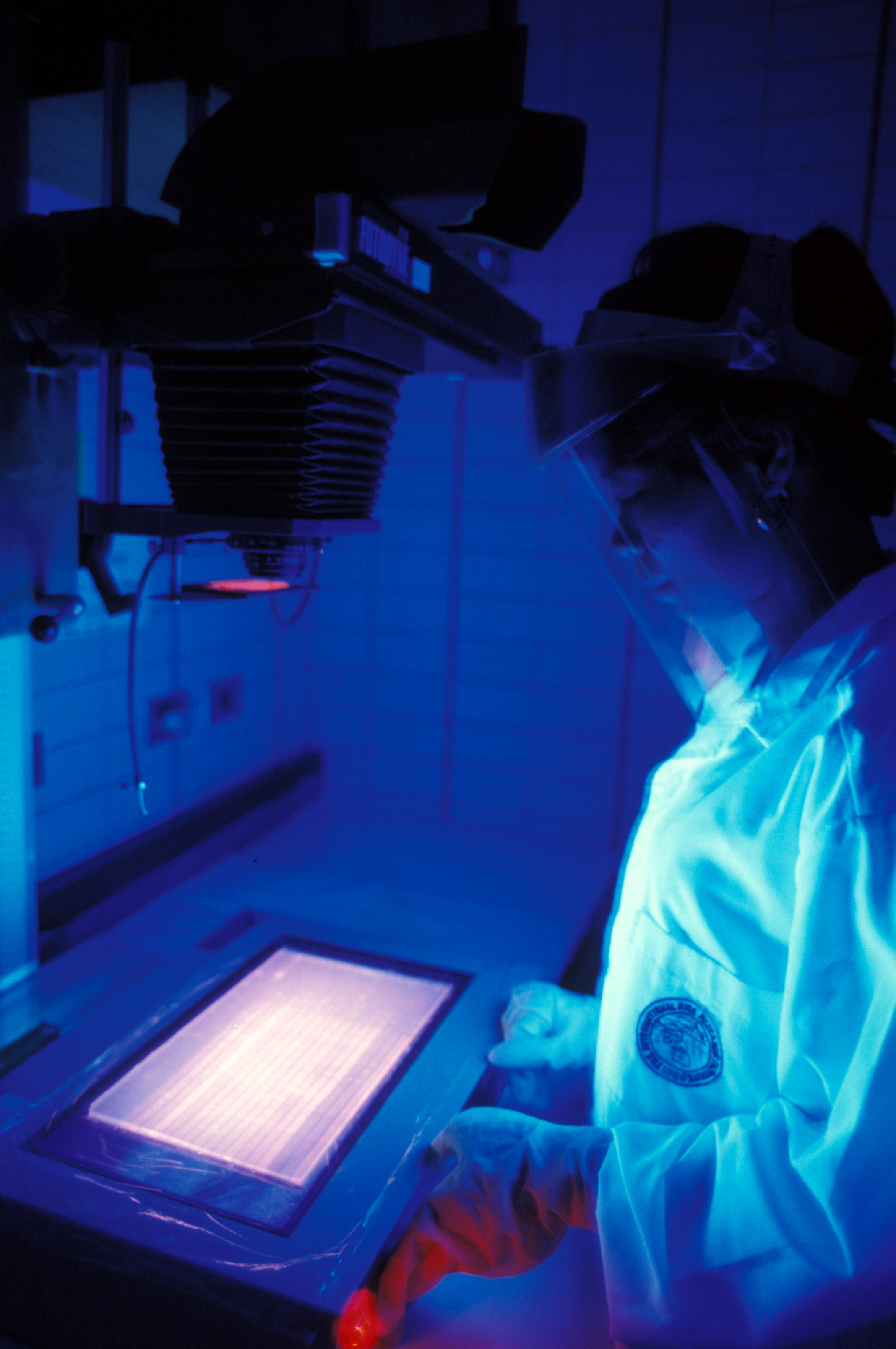 Ms. Edna Ardales, a researcher from IRRI, reviewing DNA profiles using UV light. Part of the image collection of the International Rice Research Institute .